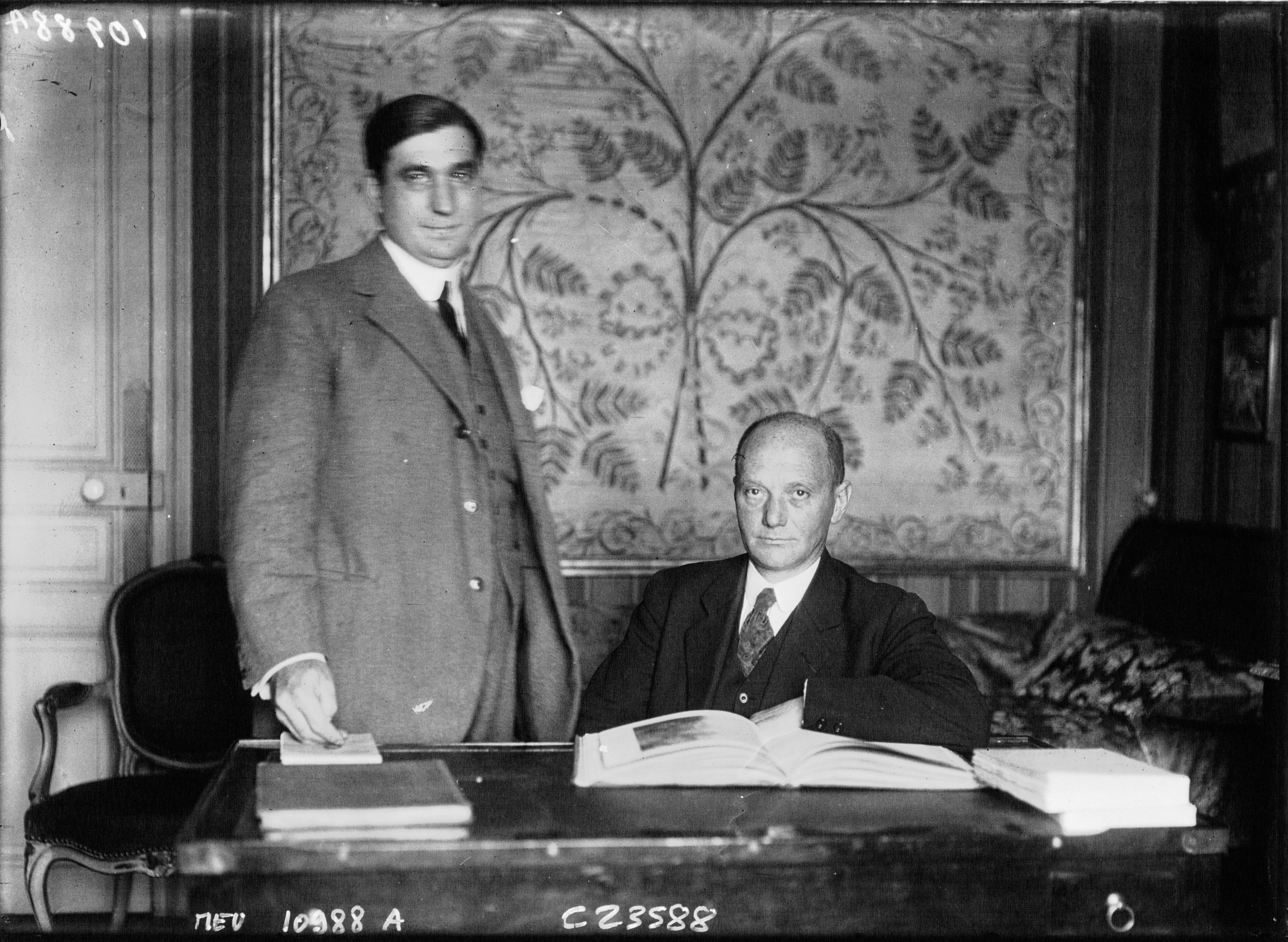 French writers Jean Tharaud (1877-1952) and Jérôme Tharaud (1874-1953).